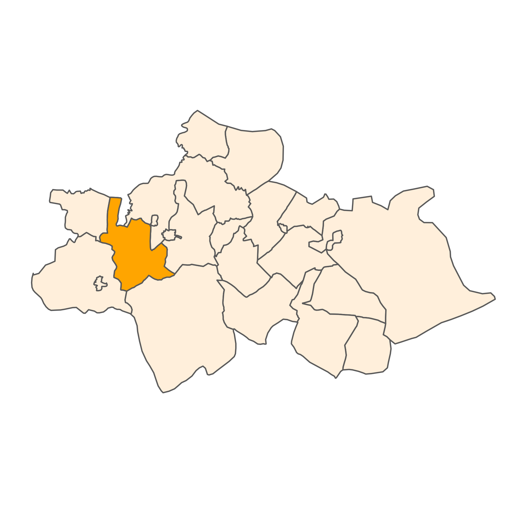 Commune (Orange), Sefrou Province (Antique White)